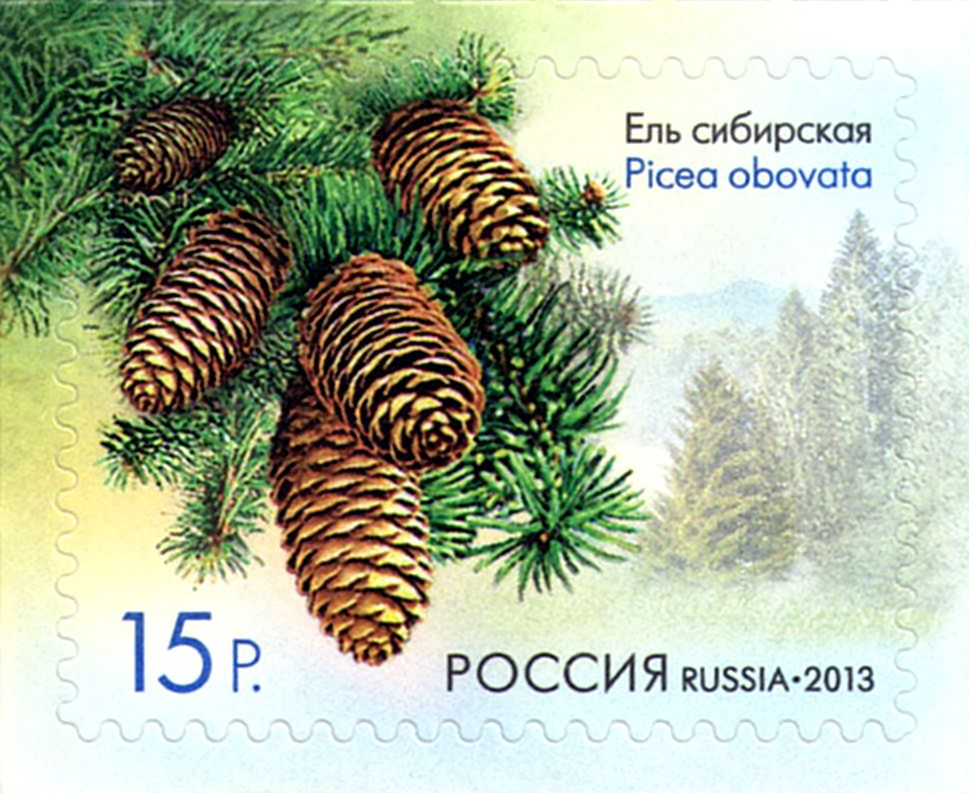 The flora of Russia. Cones of conifer trees and shrubs.Siberian spruce (Picea obovata).The stamp of Russia, 15.00 Rubles, 4 March 2012, PTC Marka Catalogue No 1685, Michel No 1917. Self-adhesive paper. Offset printing. Perforation (stamping): 11½:11½. Size of the stamp: 36.5×29 mm. Print run: 110,000.